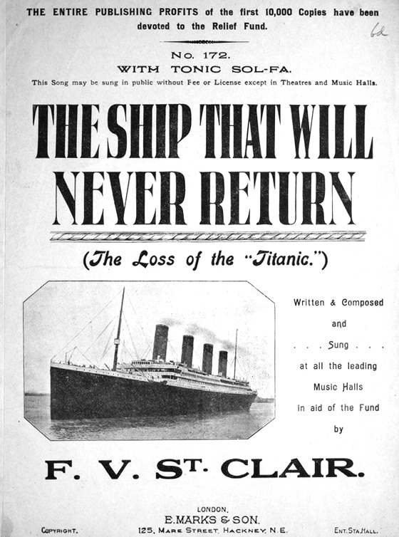 Cover of The Ship That Will Never Return sheet music